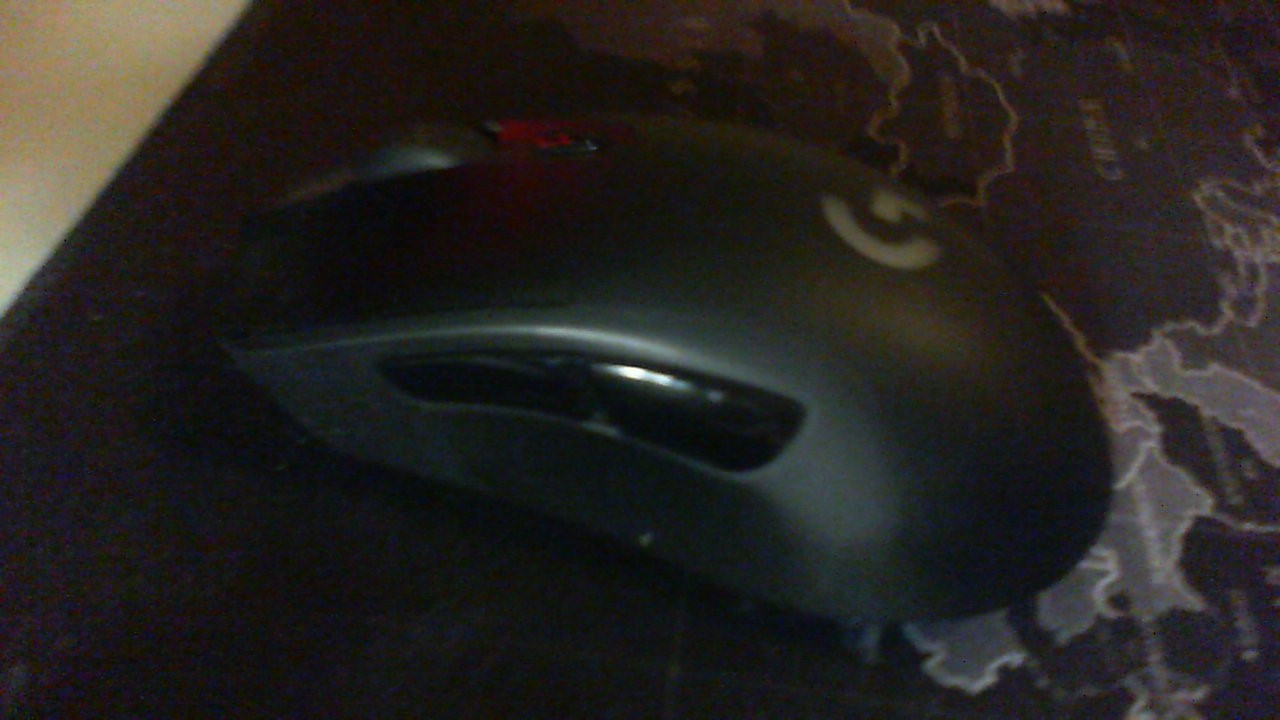 A logitech mouse on top of a mousepad